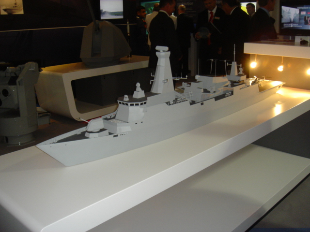 The model of LEKIU Batch II frigate class at LIMA 07. (RELEASED)